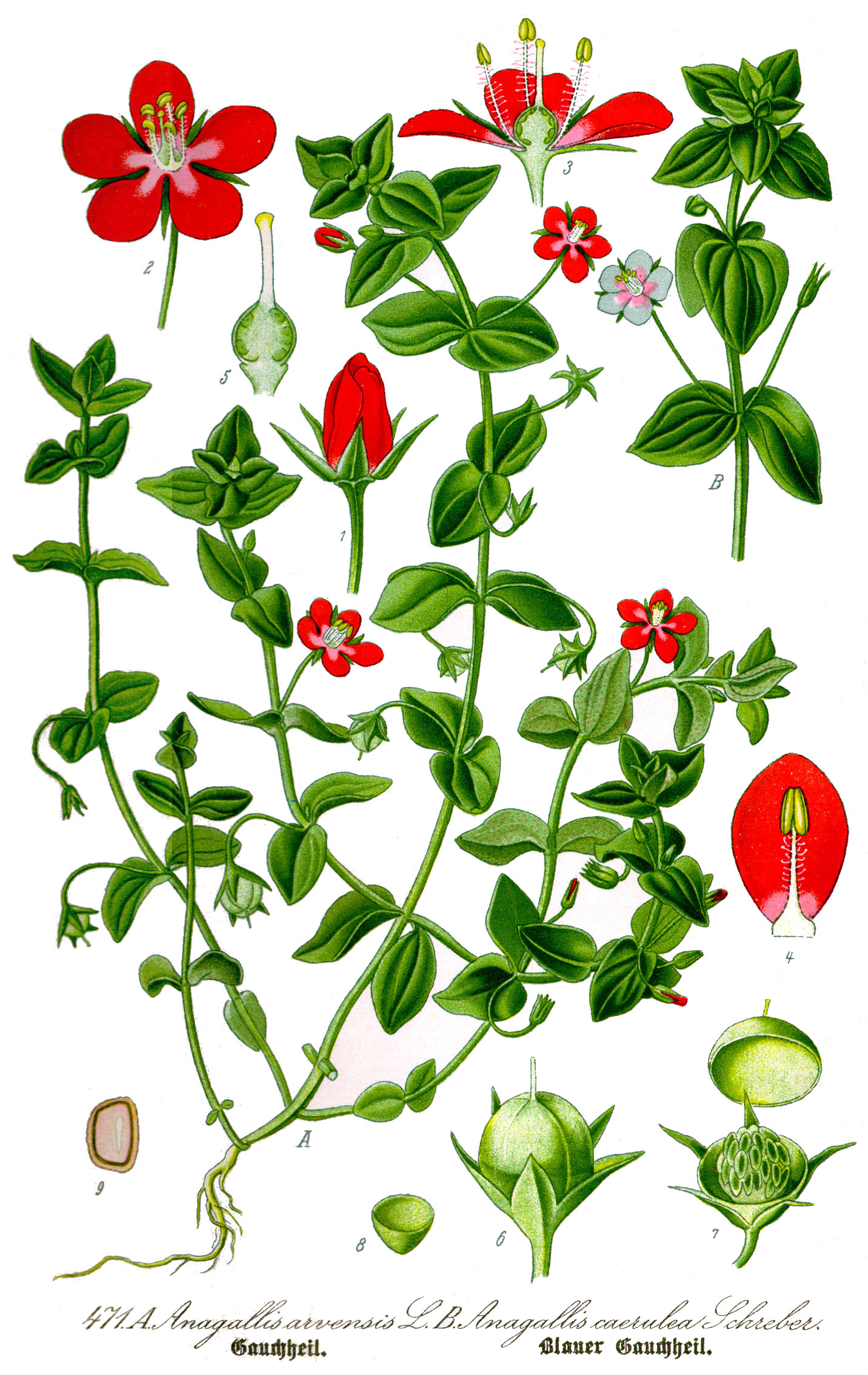 Name Anagallis caerulea ;Family:Primulaceae Original book source: Prof. Dr. Otto Wilhelm Thomé Flora von Deutschland, Österreich und der Schweiz 1885, Gera, Germany Permission granted to use under GFDL by Kurt Stueber